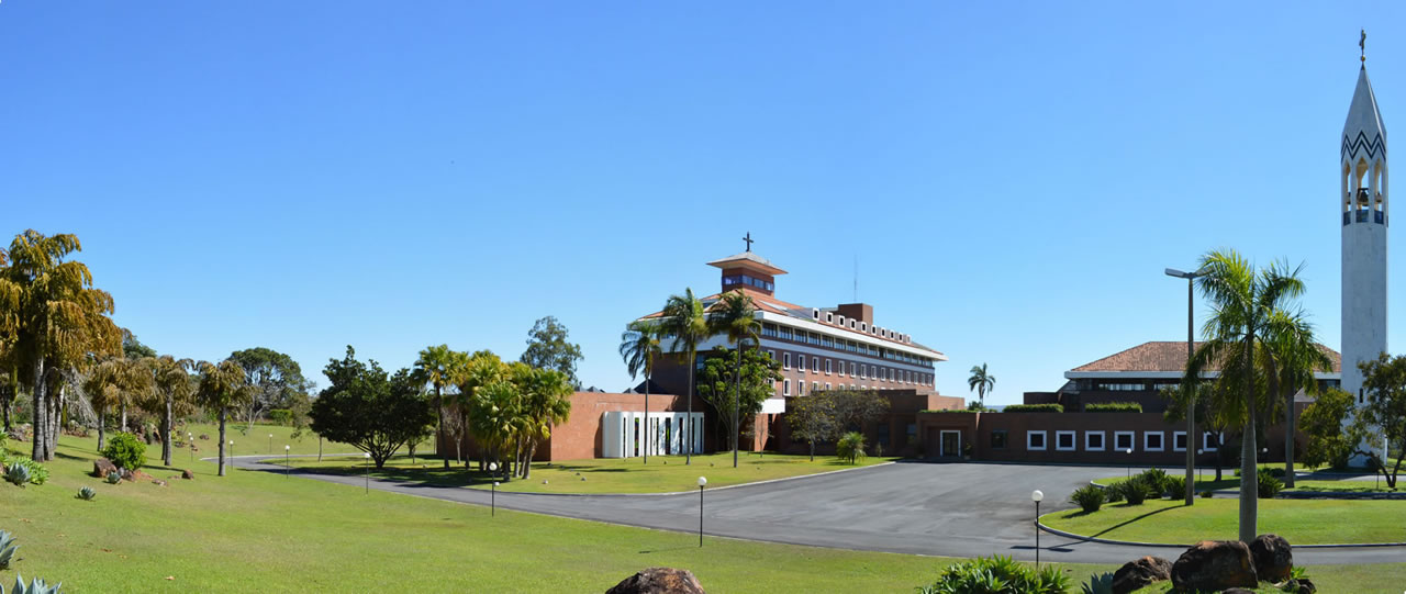 Brasilia's Seminary Redemptoris Mater